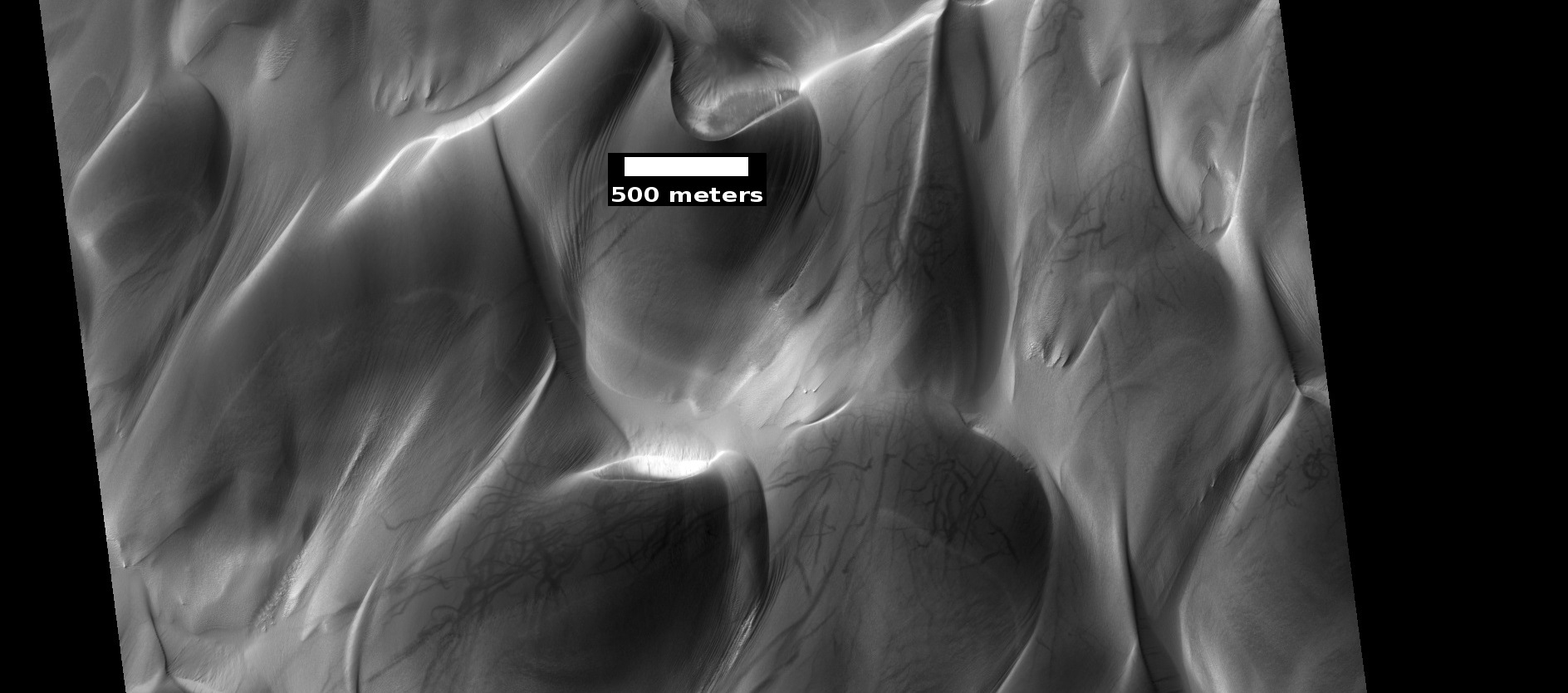 Dunes in Hooke Crater, as seen by hirise